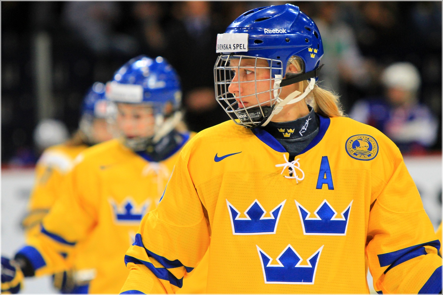 IIHF World Women Championship 2011. Preliminary Round Game Group A. Sweden - Slovakia 3-0.